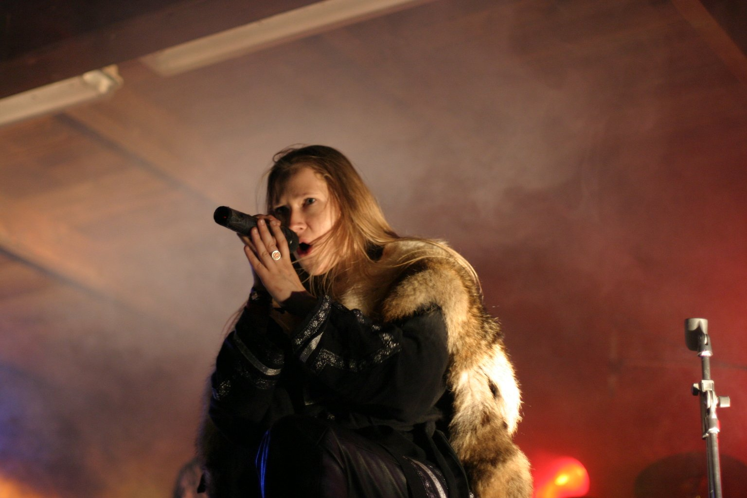 Maria („Mascha“) ‚Scream‘ Archipowa, vocalist of the russian Pagan-Metal-Band Arkona, performing live at the Black Troll Festival (Germany) in 2010.